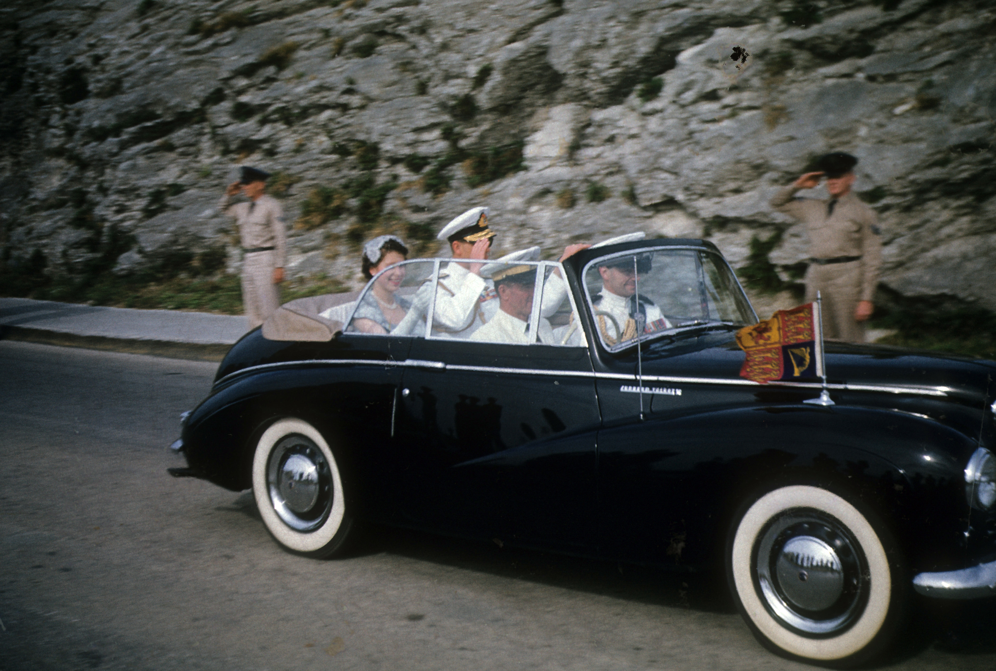 Queen Elizabeth and Prince Philip in Bermuda November 24, 1953. They were also there on November 25, but here they are wearing the same clothing as video shows them wearing when they got off the plane on the 24th. My father took this photo with his color slide camera while he was stationed at Kindley Air Force Base. Those are other American Airmen saluting in the photo, so this is very likely to have been taken at Kindley. My father must have been off duty and wearing civilian clothing at the time or he would also have been saluting rather than taking a picture.